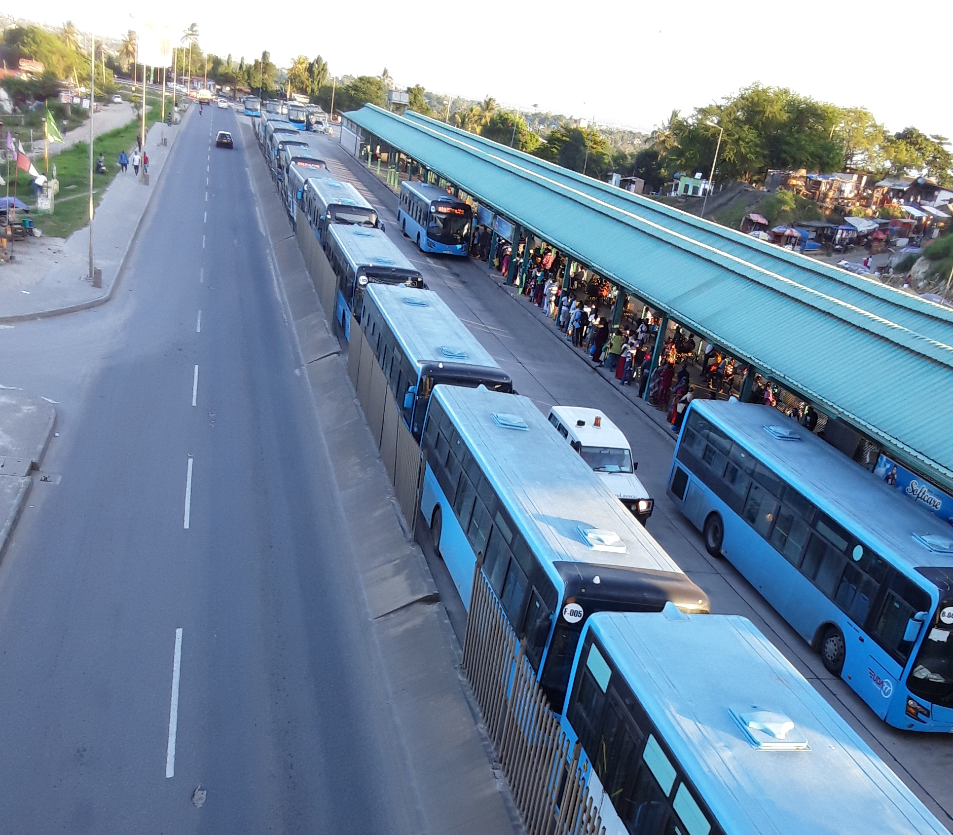 DART- Dar Rapid Transit also known as Mwendokasi due to its working system. is most useful transportation in the Dar es salaam especially to those from Mbezi and Kimara areas to city center( Posta and Kariakoo) also to Morocco and Muhimbili to Gerezani. This transportation reduced the traffic jams to those area and vehicles accommodate almost 70 to 150 people sometimes This is an image with the theme "Africa on the Move or Transport" from: Tanzania